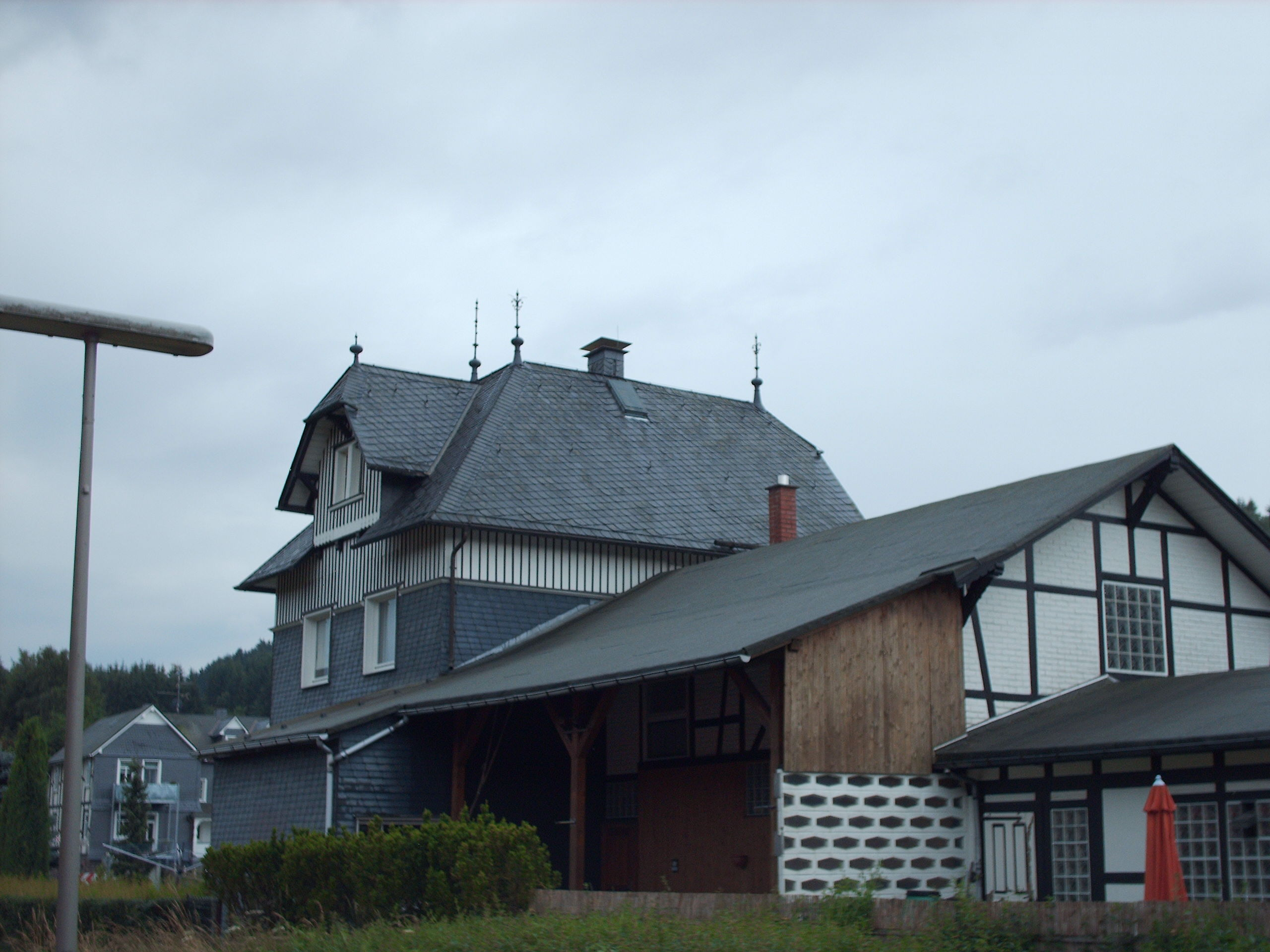 Birkelbach station, Erndtebrück, Germany check usage